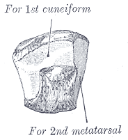 FIG. 280– The left second cuneiform. Antero-medial view.